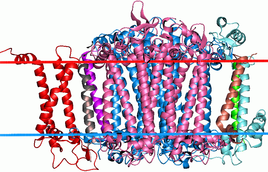 Protein image from OPM database